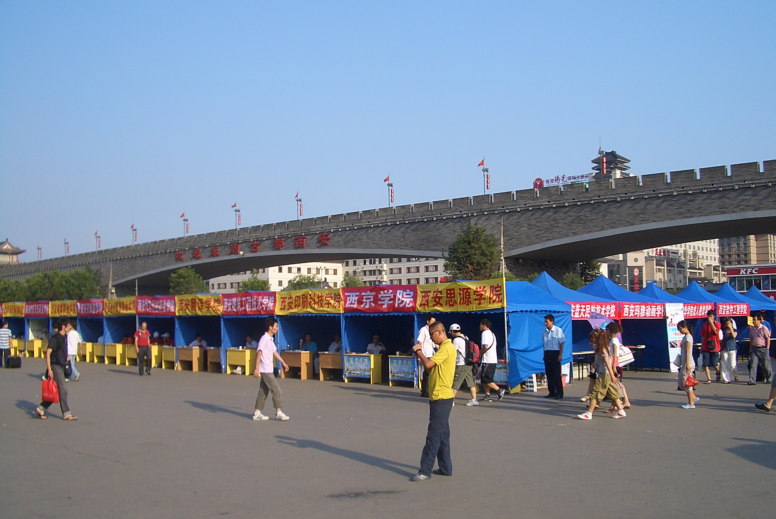 The plaza in front of Xi'an Railway Station; looking toward the city wall. Booths are set up by the city's universities to welcome new students arriving to the city.